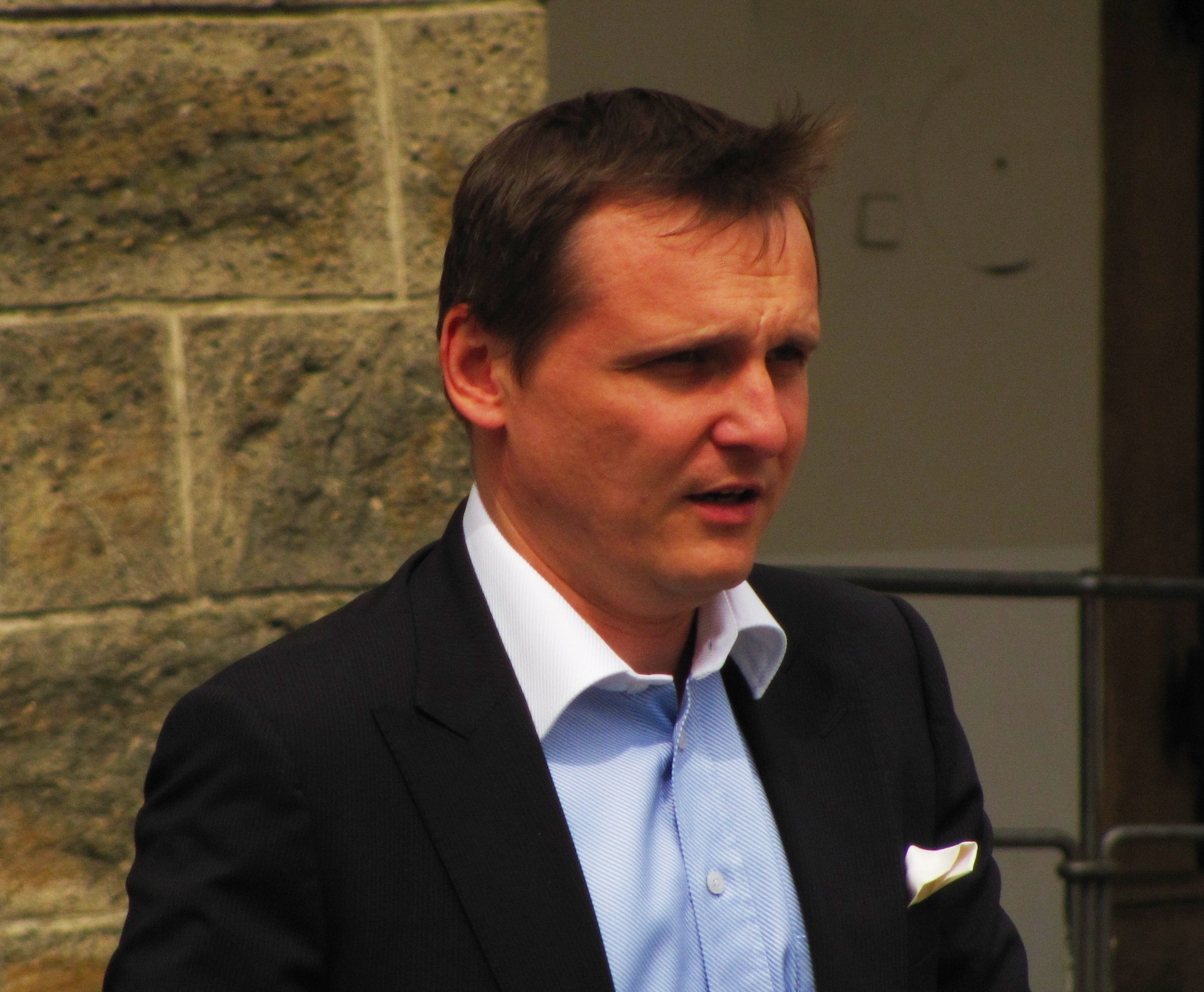 Vít Bárta, Member of the Czech Parliament